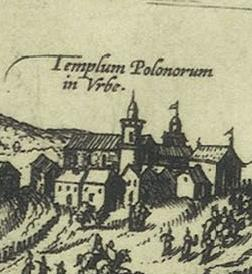 Church of Vitaut the Great, Hrodna; Фара Вітаўта ў Горадні